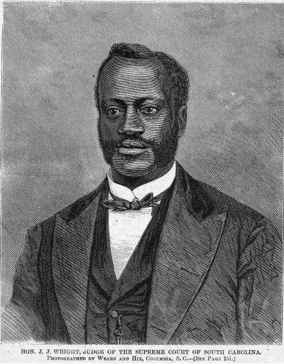 Honorable Jonathan Jasper Wright, Judge of the Supreme Court of South Carolina